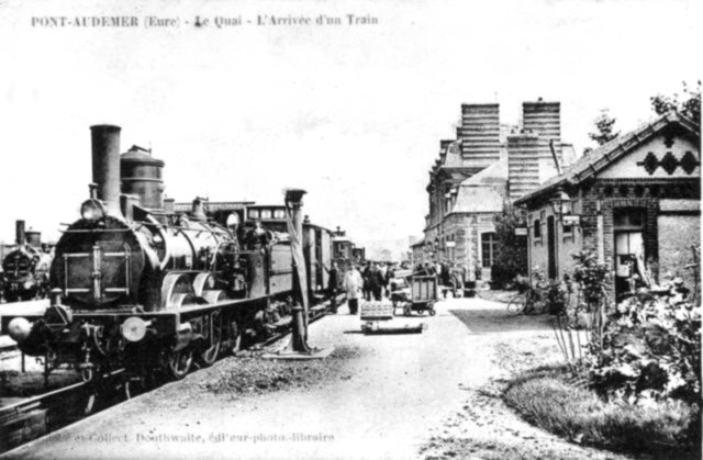 Train station of Pont-Audemer at the beginning of the 20th century